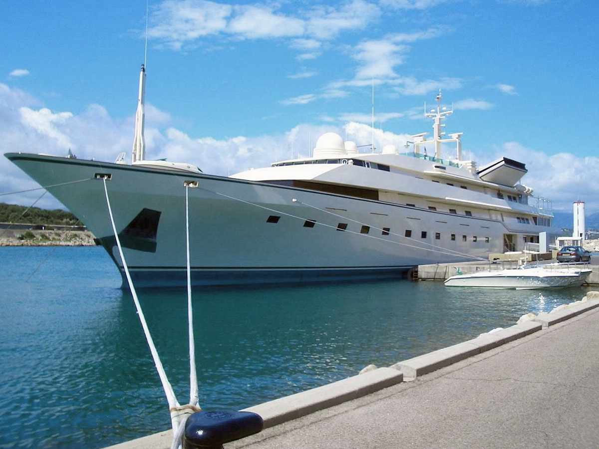 Kingdom 5KR is a 281 foot/85.65 metre superyacht owned by Al-Waleed bin Talal.